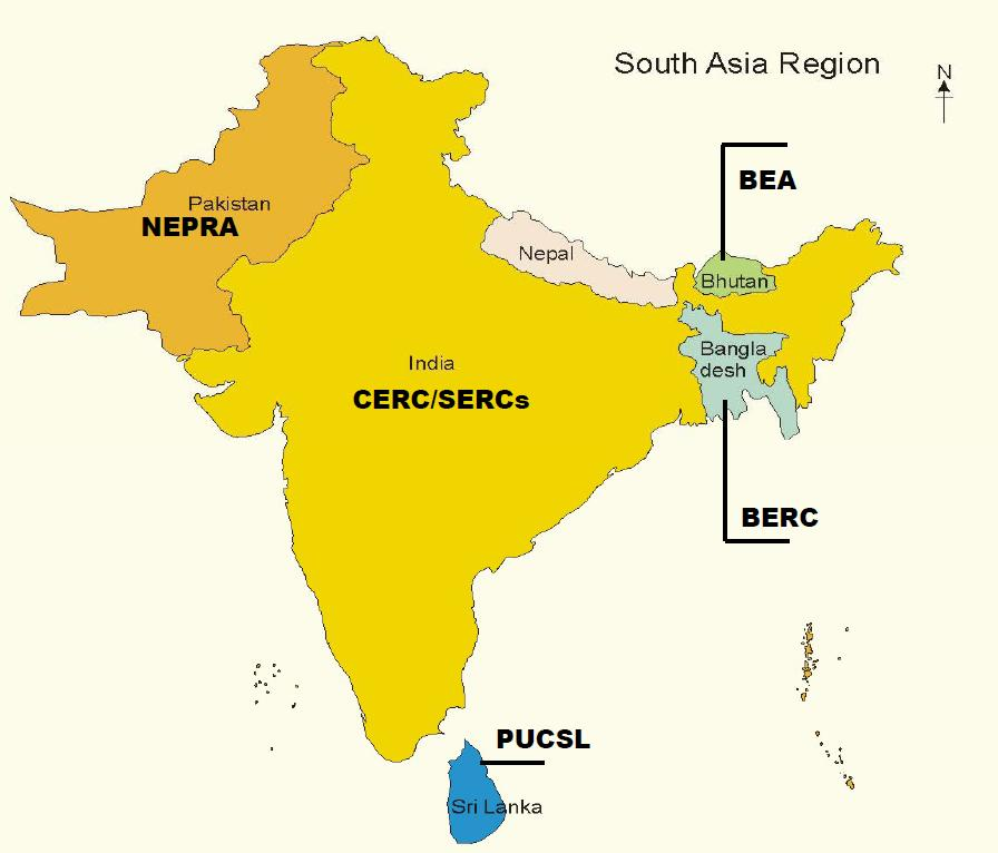 Map showing electricity regulators of South Asia.